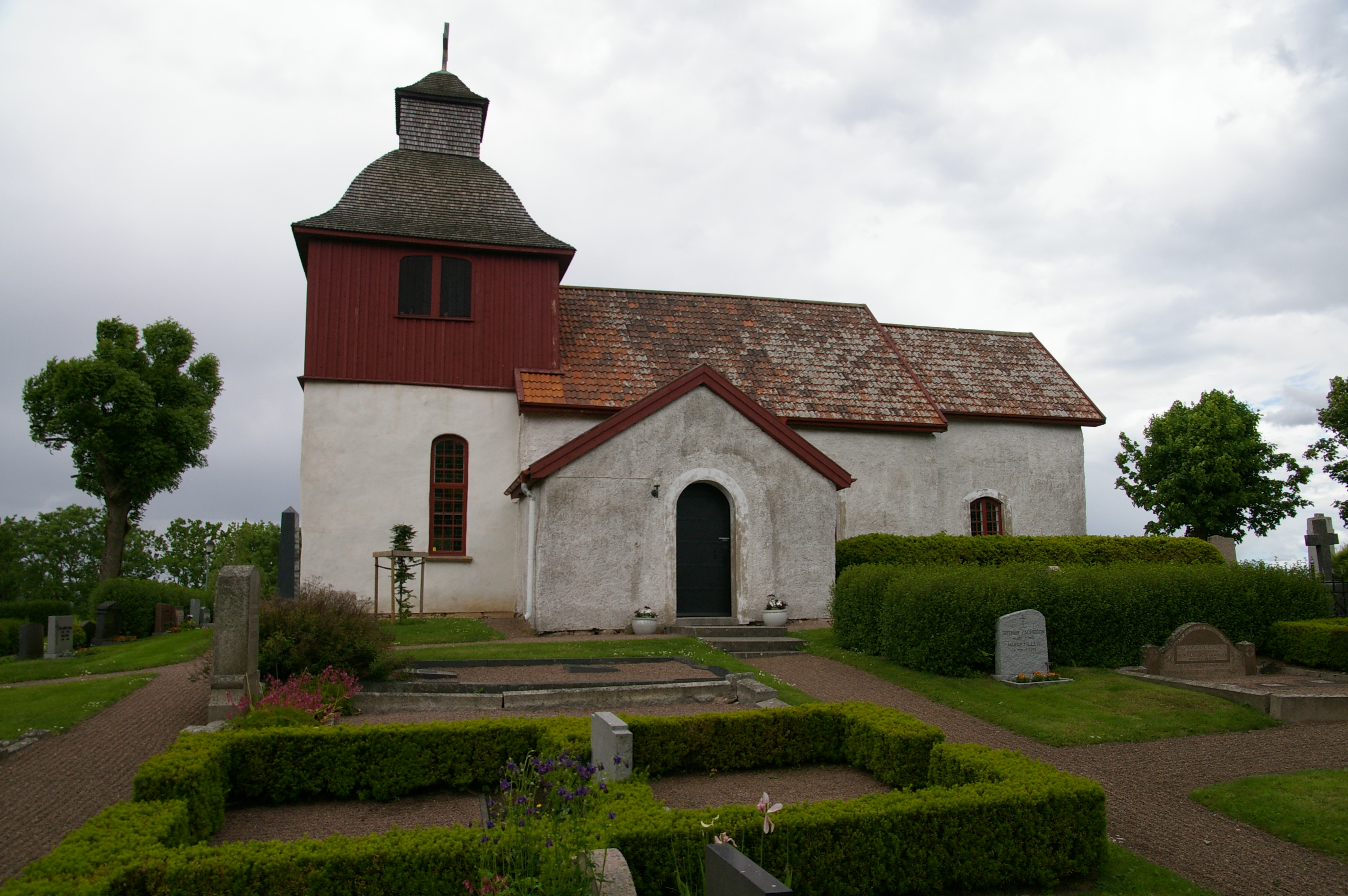 Luttra kyrka kyrka (Swedish:Church of Luttra) in Västergötland, Sweden. Built in the 12th century.